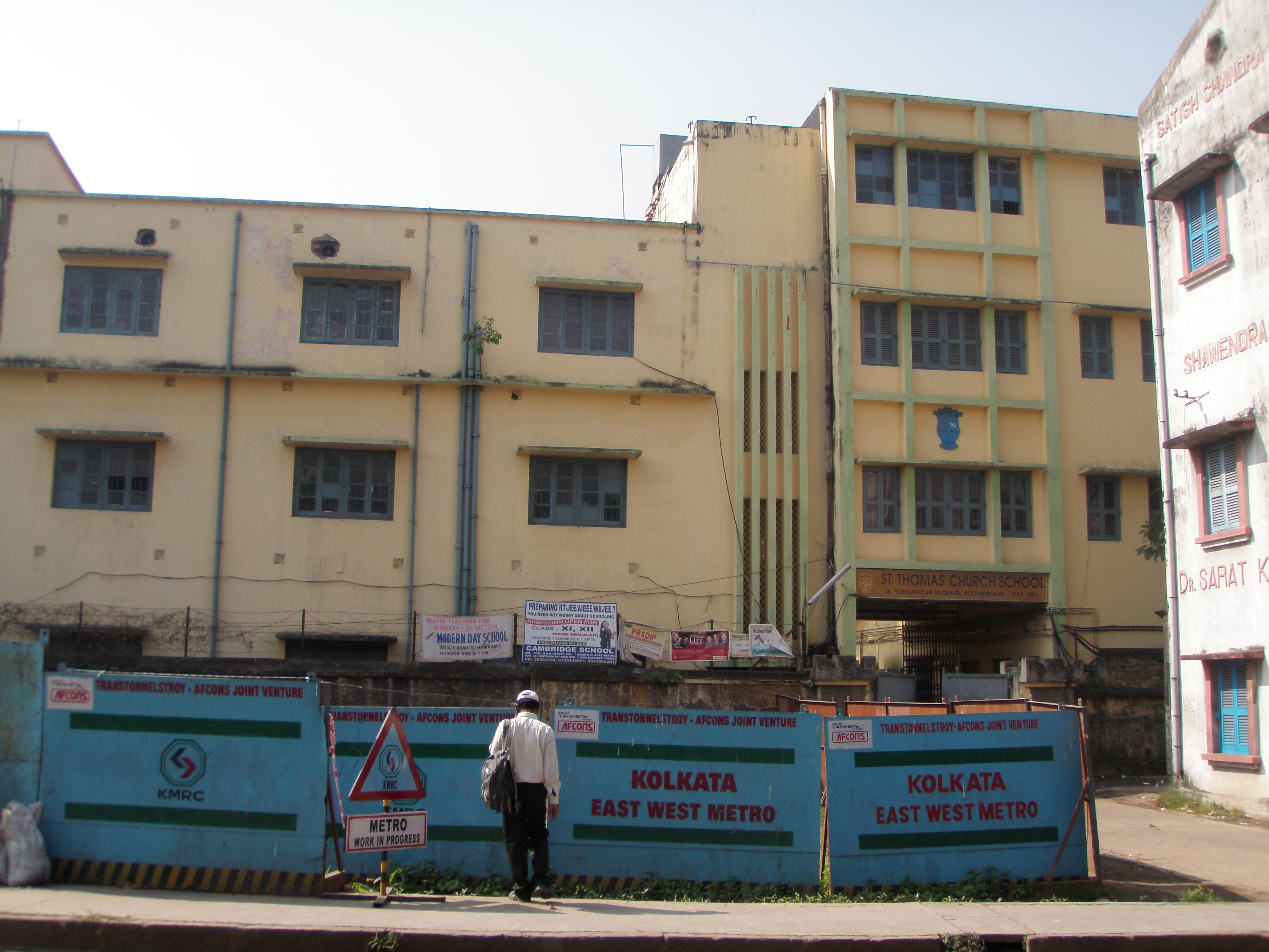 Howrah district, West Bengal.